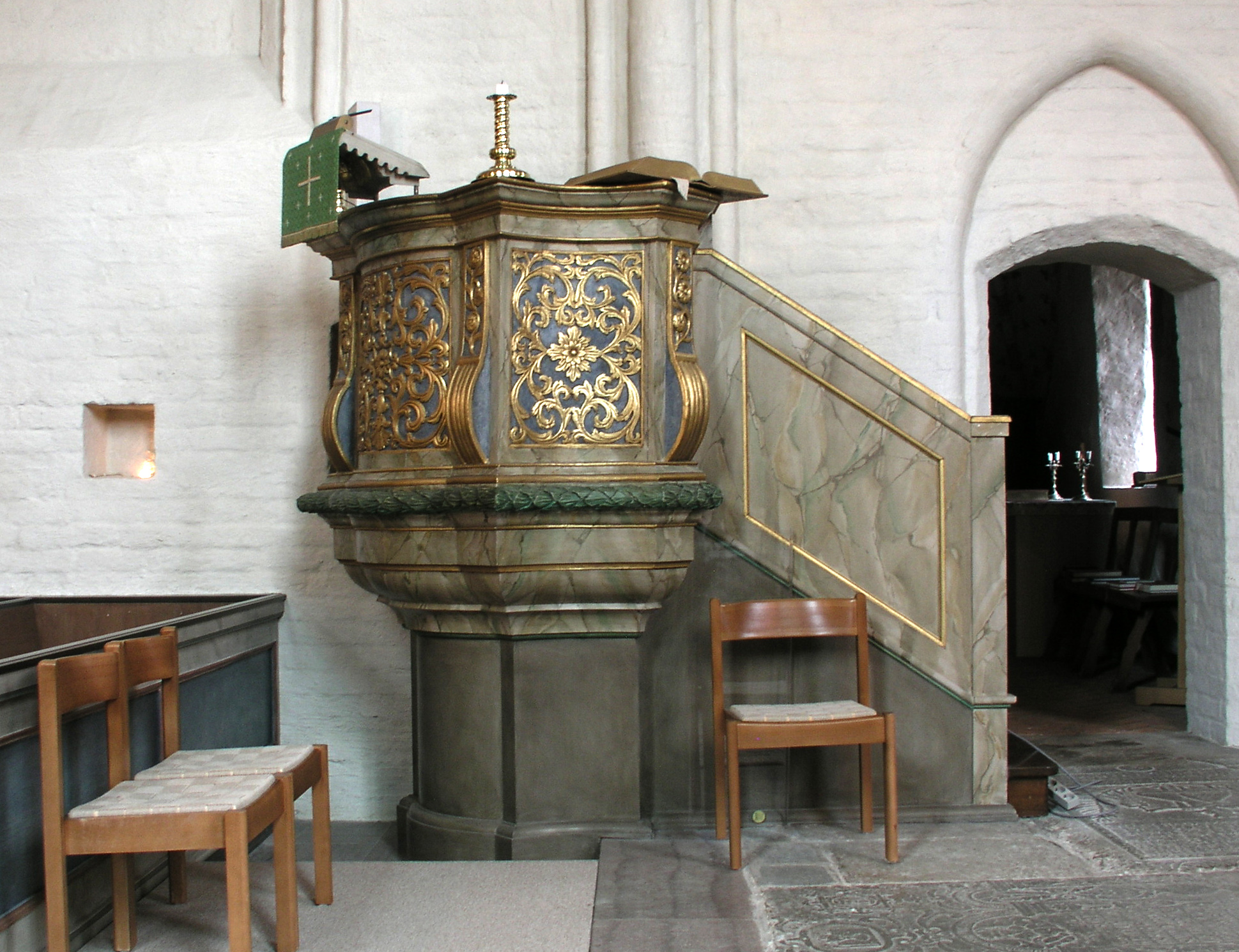 Askeby kyrka / Askeby church, Diocese of Linköping, Linköpings kommun. The picture was taken by Håkan Svensson (Xauxa) the 2nd of October 2005.